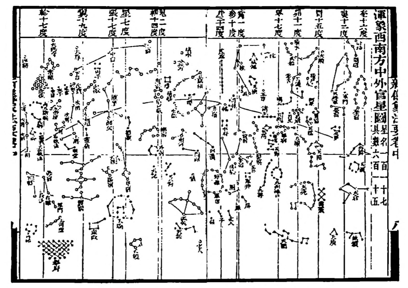 This is a star map for the celestial globe of Su Song (1020-1101), a Chinese scientist and mechanical engineer of the Song Dynasty (960-1279). It was first published in the year 1092, in Su's book known as the Xin Yi Xiang Fa Yao (Wade-Giles: Hsin Yi Hsiang Fa Yao). On this star map there are 14 xiu (lunar mansions) on Mercator's projection. The equator is represented by the horizontal straight line running through the star chart, while the ecliptic curves above it. Note the unequal breadth of the lunar mansions on the map. Su Song's star maps had the hour circles between the xiu (lunar mansions) forming the astronomical meridians, with stars marked in quasi-orthomorphic cylindrical projection on each side of the equator, and thus was in accordance to their north polar distances. Not until the work of Gerard Mercator in 1569 was a celestial map of this projection created in the Western world (Needham, Volume 4, Part 3, 569). This picture appears on page 277 of Joseph Needham's book Science and Civilization in China: Volume 3, Mathematics and the Sciences of the Heavens and the Earth.